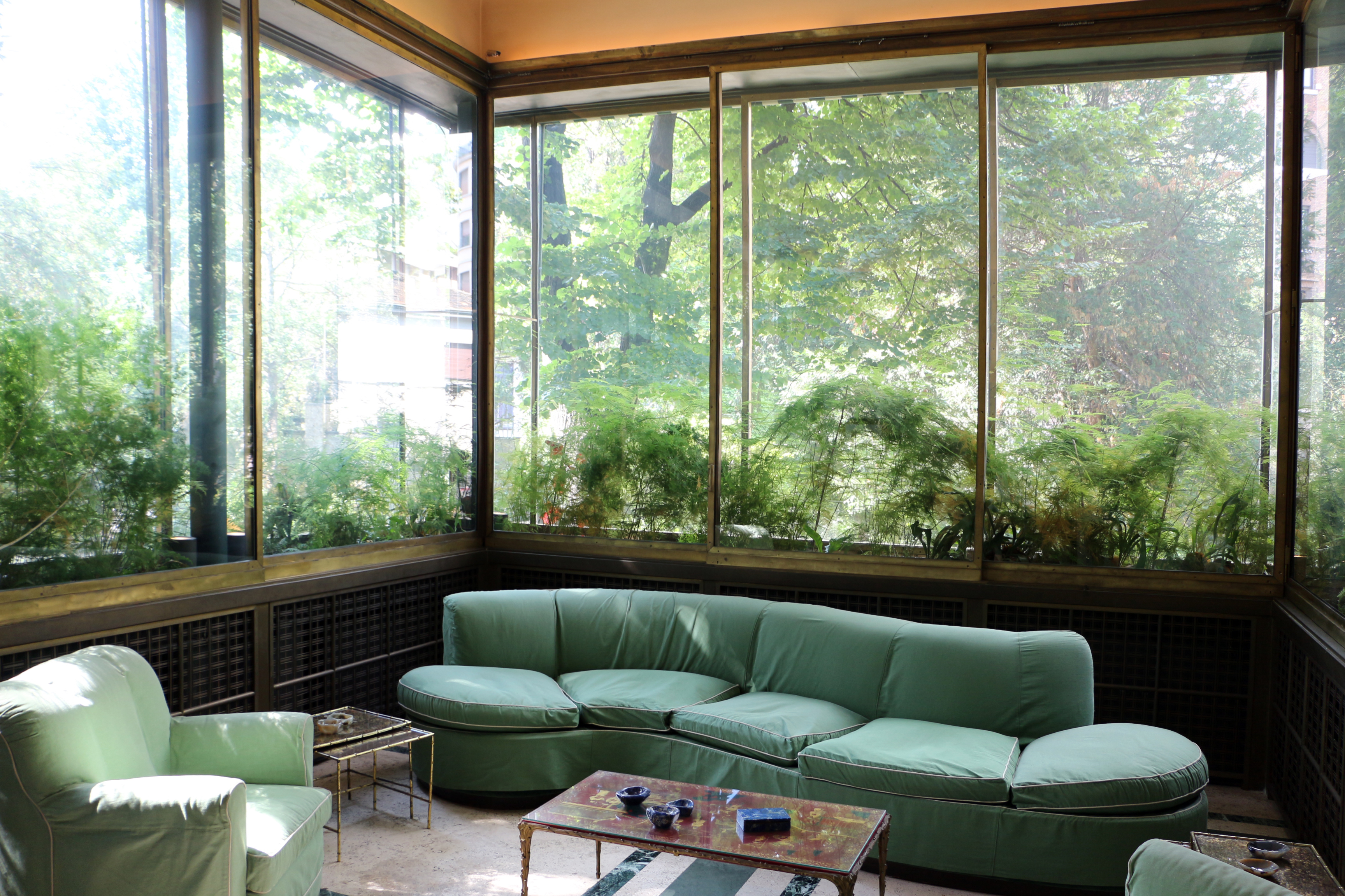 Villa Necchi Campiglio (Milan) - Interior